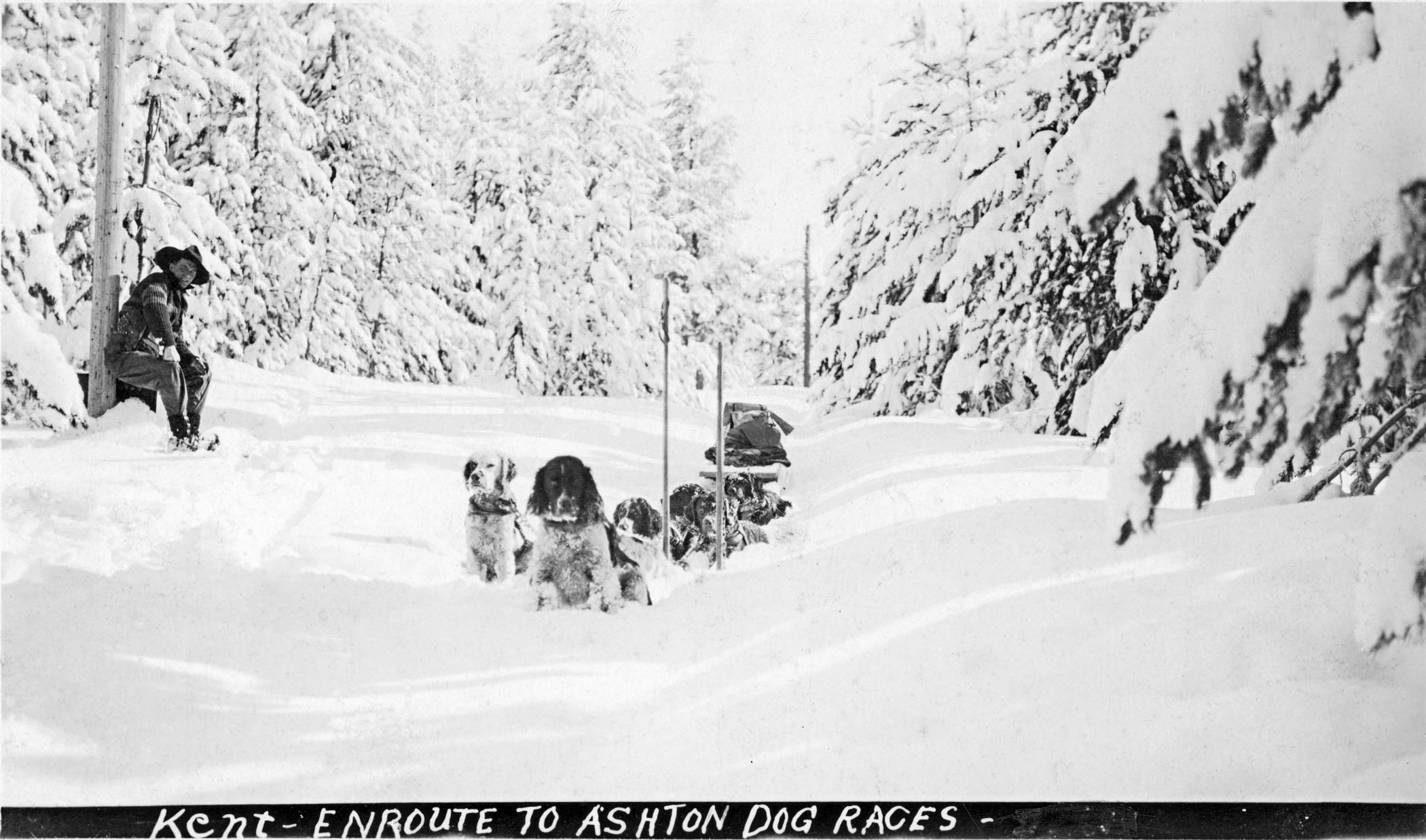 Tud Kent in Island Park on his way to American Dog Derbu